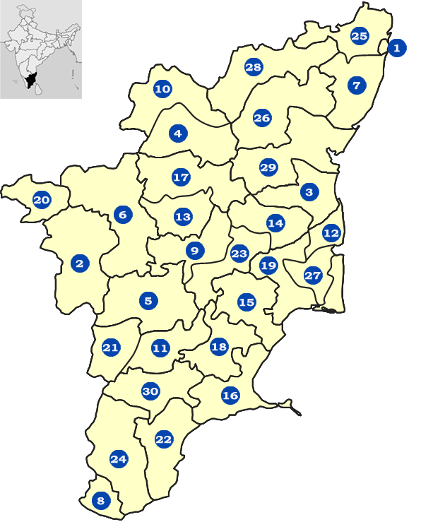 Districts of Tamil Nadu numbered. The numbered district map is incorrect. Thanjavur, marked as number 20 is definitely not near Coimbatore( No.2). Please dont upload such misleading pictures. Thanks.